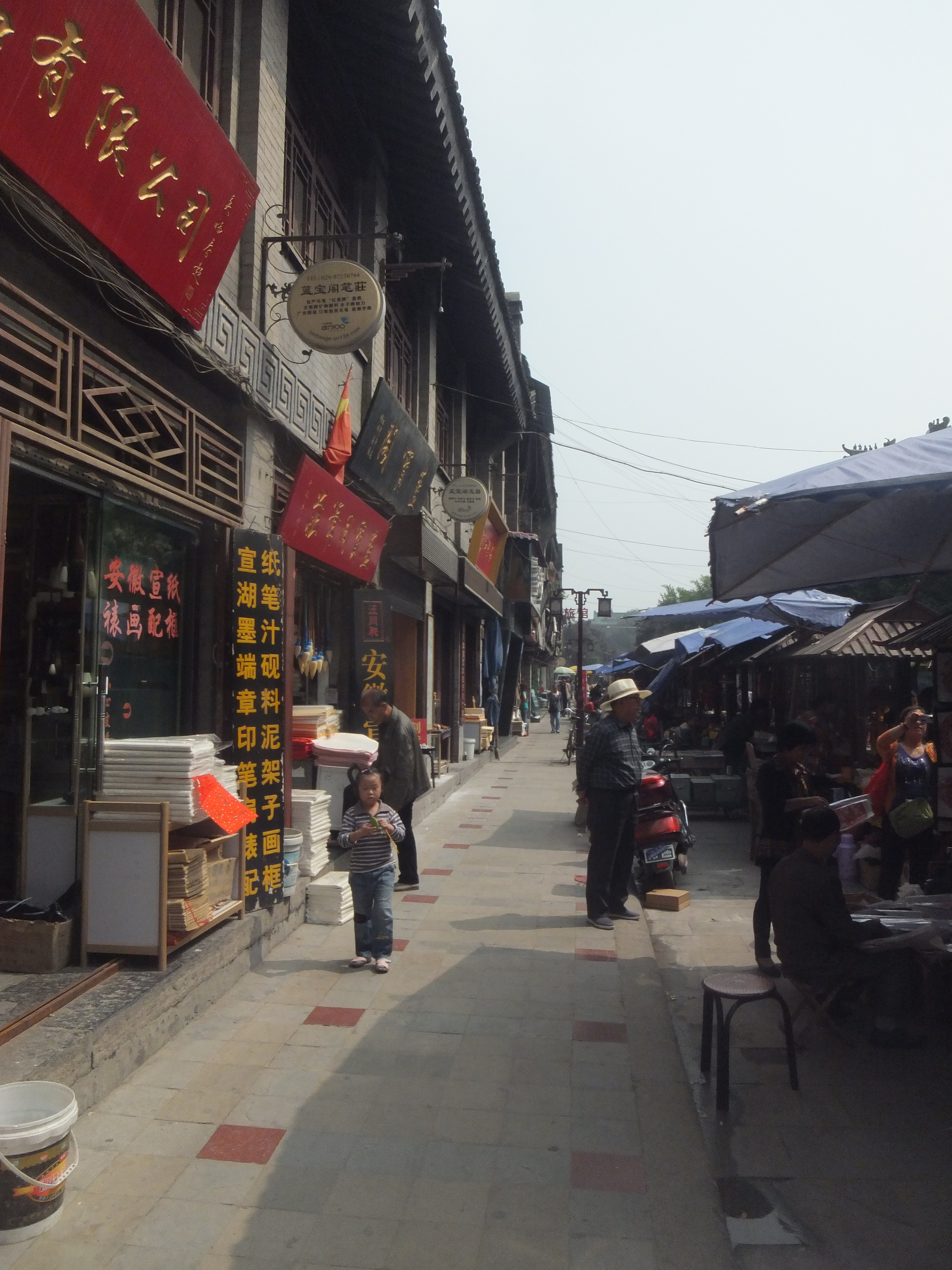 Shuyuan Men in the city of Xi'an (China) is a cultural street located on the eastern side of South Gate. It was named after the Guanzhong Shuyuan (academy of classical learning) originally situated in the street.